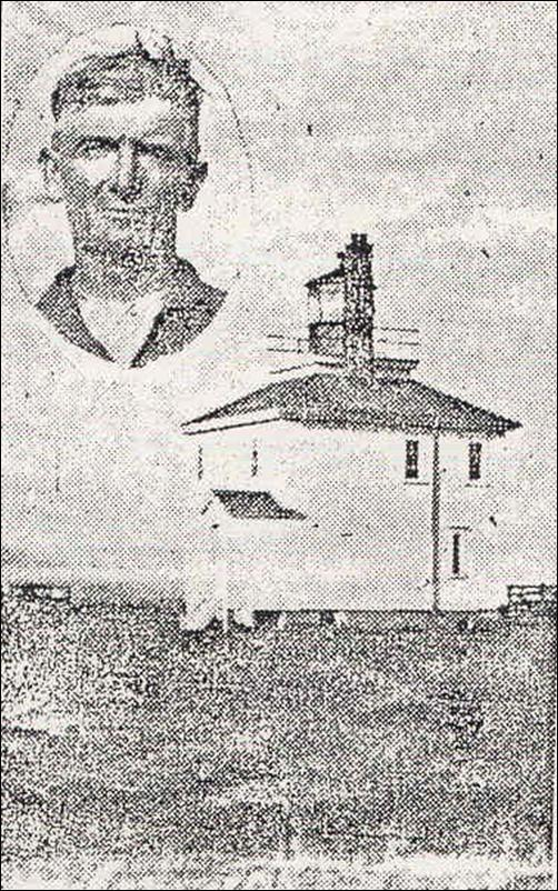 Thomas Faulkner and the lighthouse at Burntcoat Head, Nova Scotia